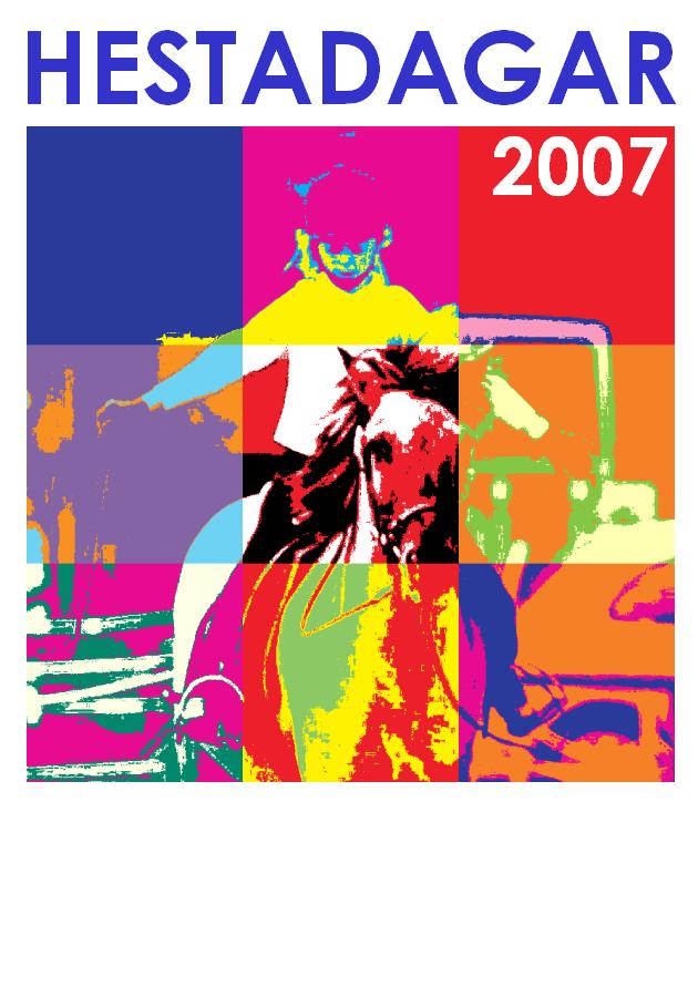 Hestadagar Symbol 2007